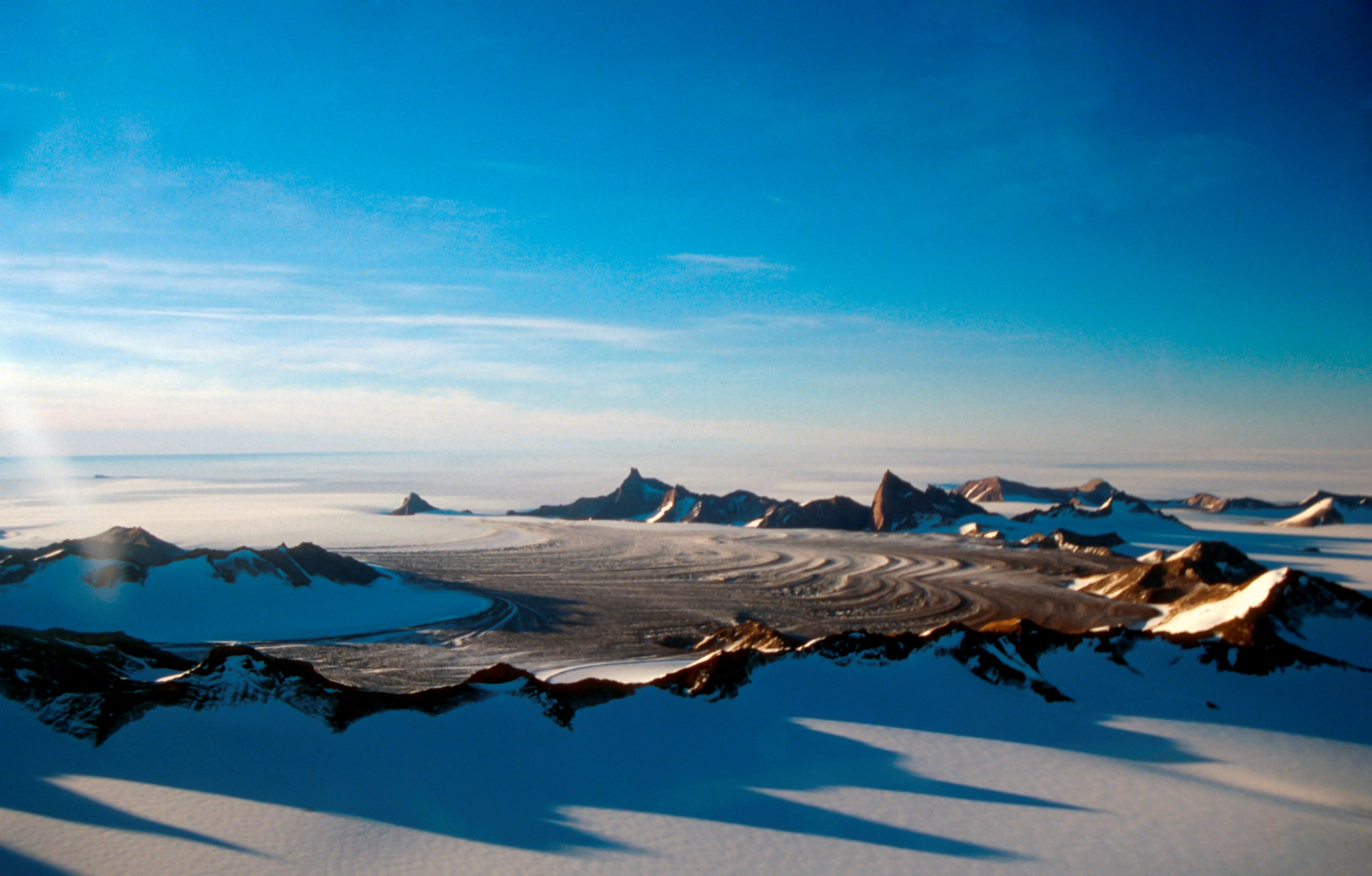 View in northwestern direction over Schussel Cirque, central Dronning Maud Land